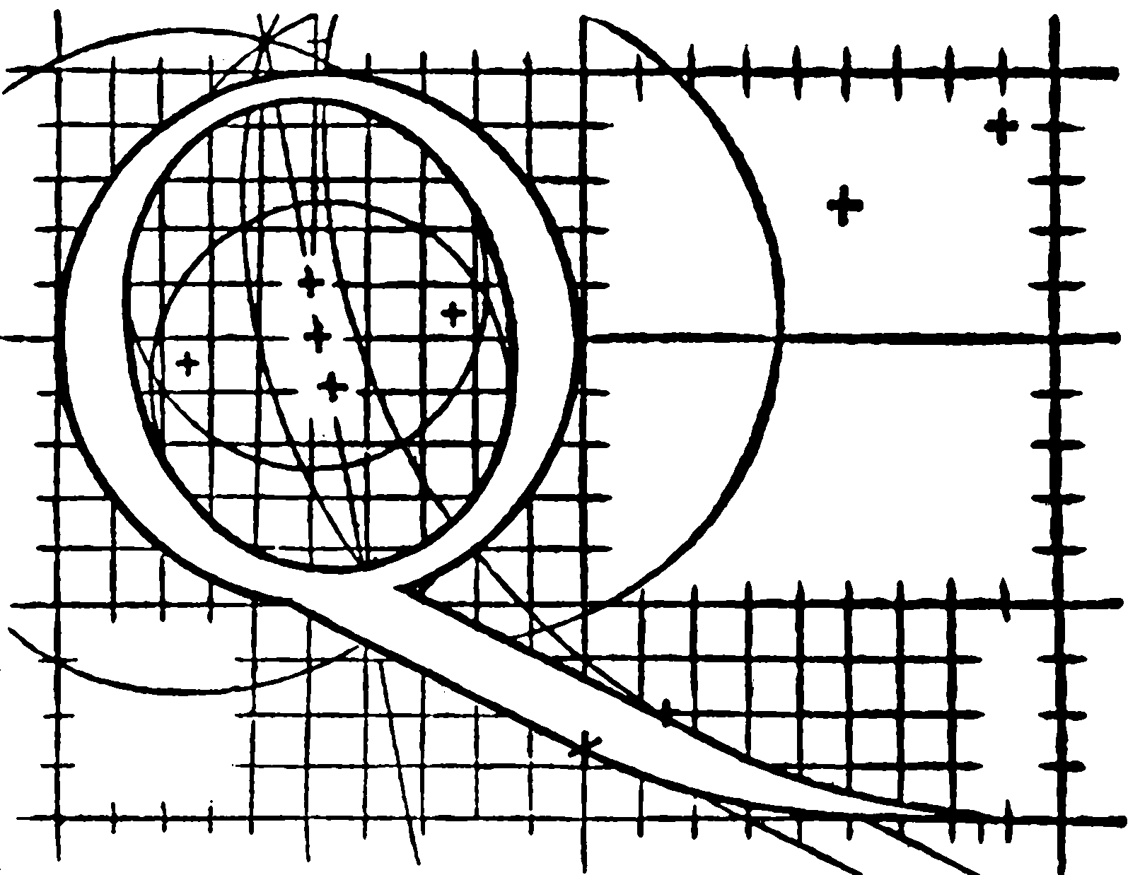 Geoffroy Tory's drawing of a Roman letter Q. This work is based on a work in the public domain. It has been digitally enhanced and/or modified. This derivative work has been (or is hereby) released into the public domain by its author, Psiĥedelisto. This applies worldwide. In some countries this may not be legally possible; if so: Psiĥedelisto grants anyone the right to use this work for any purpose, without any conditions, unless such conditions are required by law. This graphic was created with GIMP.